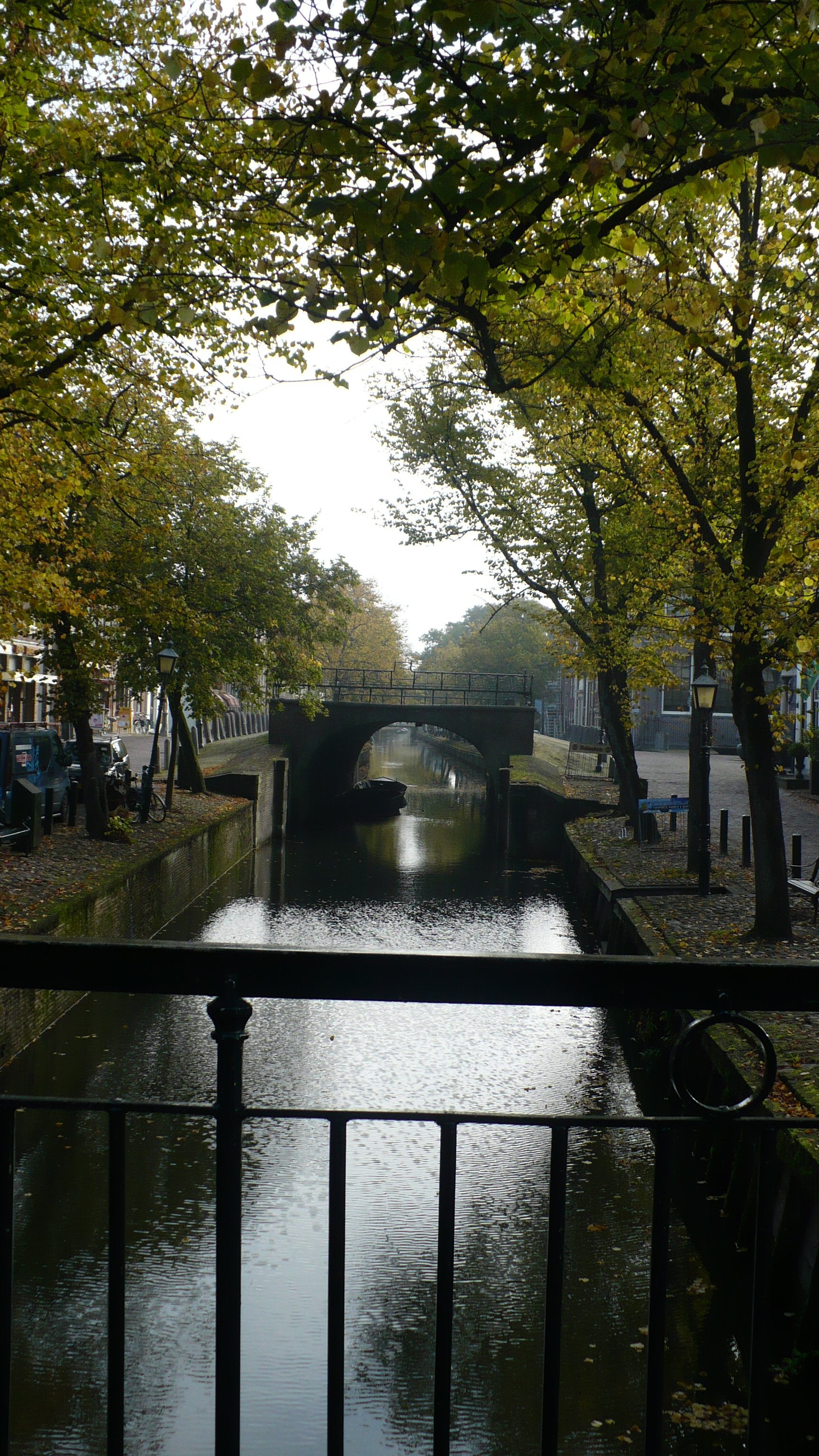 E river flows through Netherlands and the town Edam is situated by the side of river. Several canals pass through this old town.